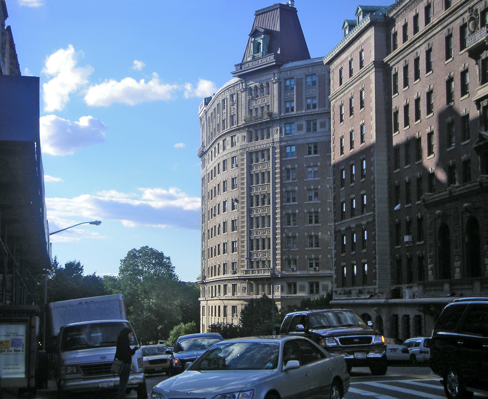 116th Street looking west to Riverside Drive from Broadway. The end building,The Paterno, is used for Rob Philip's apartment in the 2007 film, Enchanted.